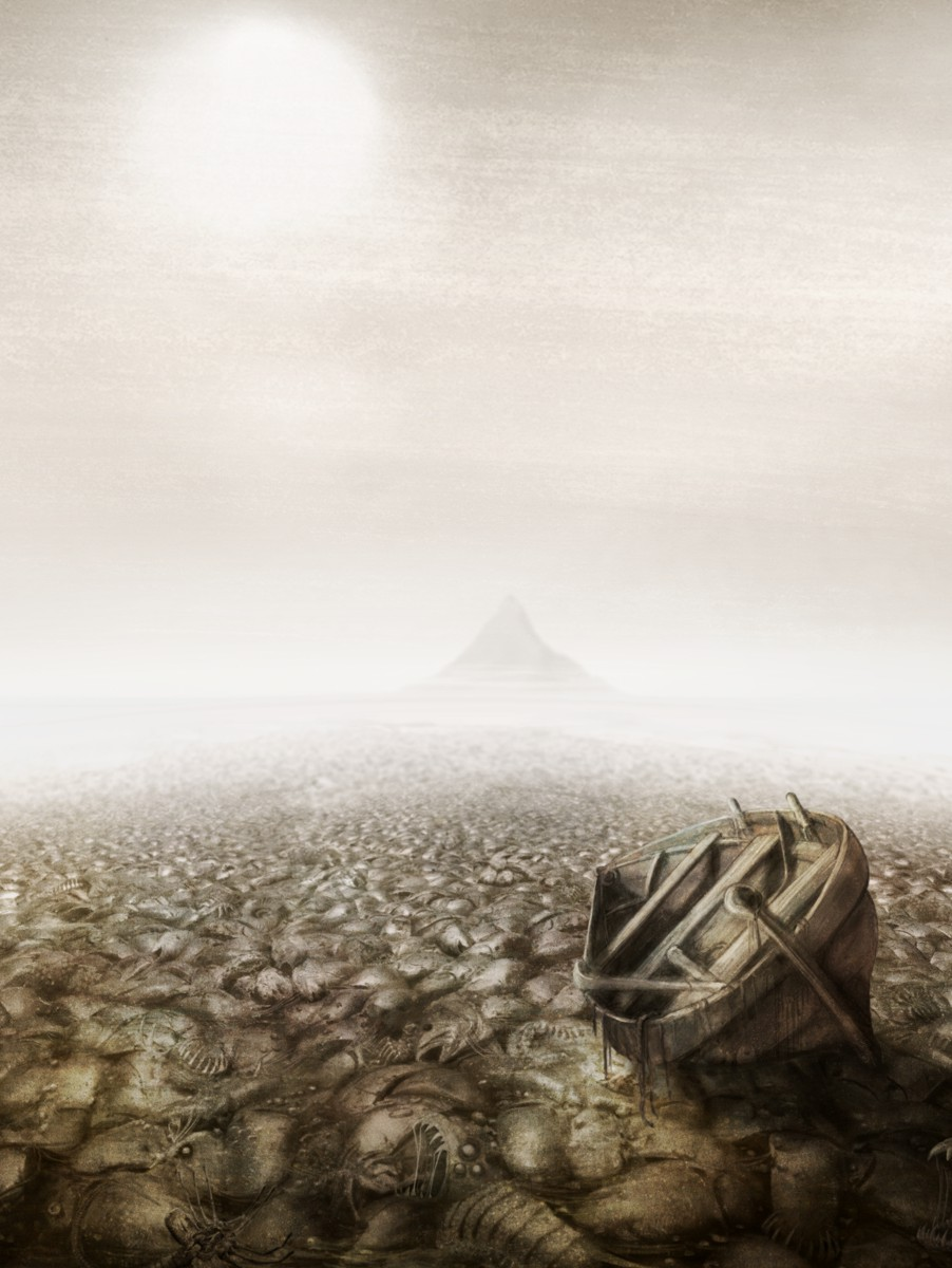 David Garcia Forés' artwork based on H. P. Lovecraft's short story Dagon.